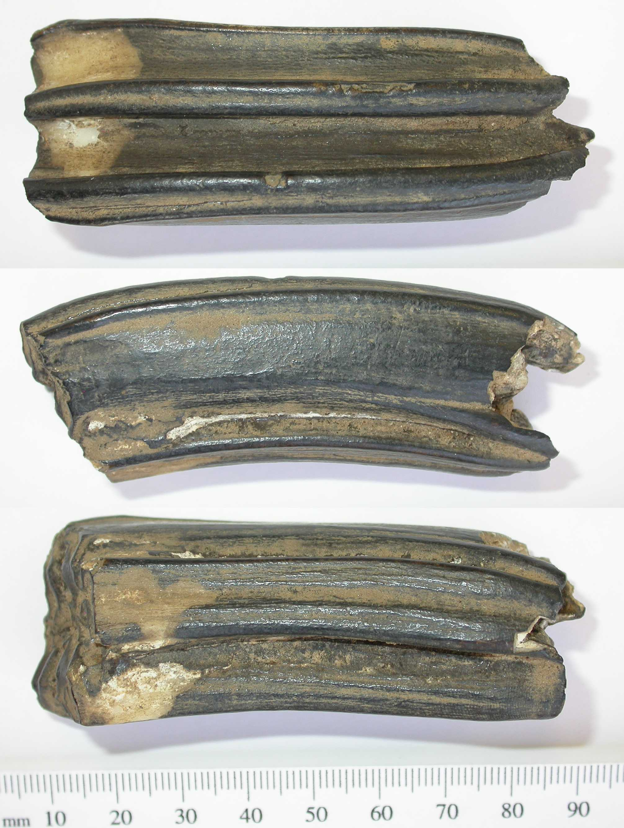 Partially fossilized horse's molar, some damage to tips of root, little wear on crown. Unworked. From glacial layers in swallet hole. Length 79.65mm, width 28.36mm, thickness 26.68mm, weight 63.03g.